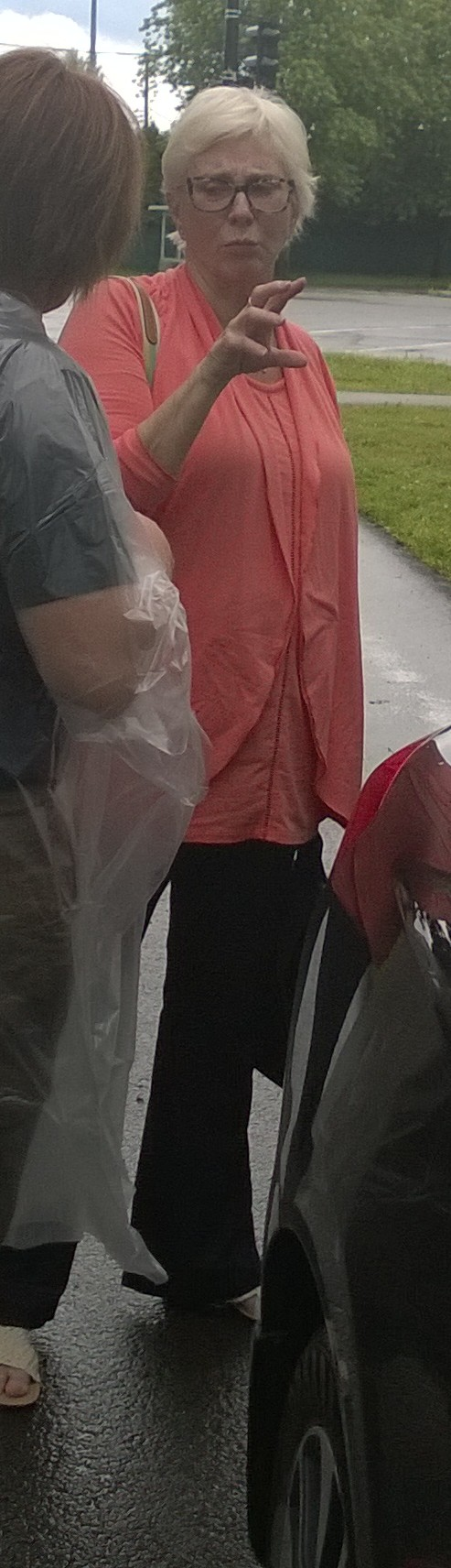 Renée Martel photographed in Montréal , Québec, Canada.